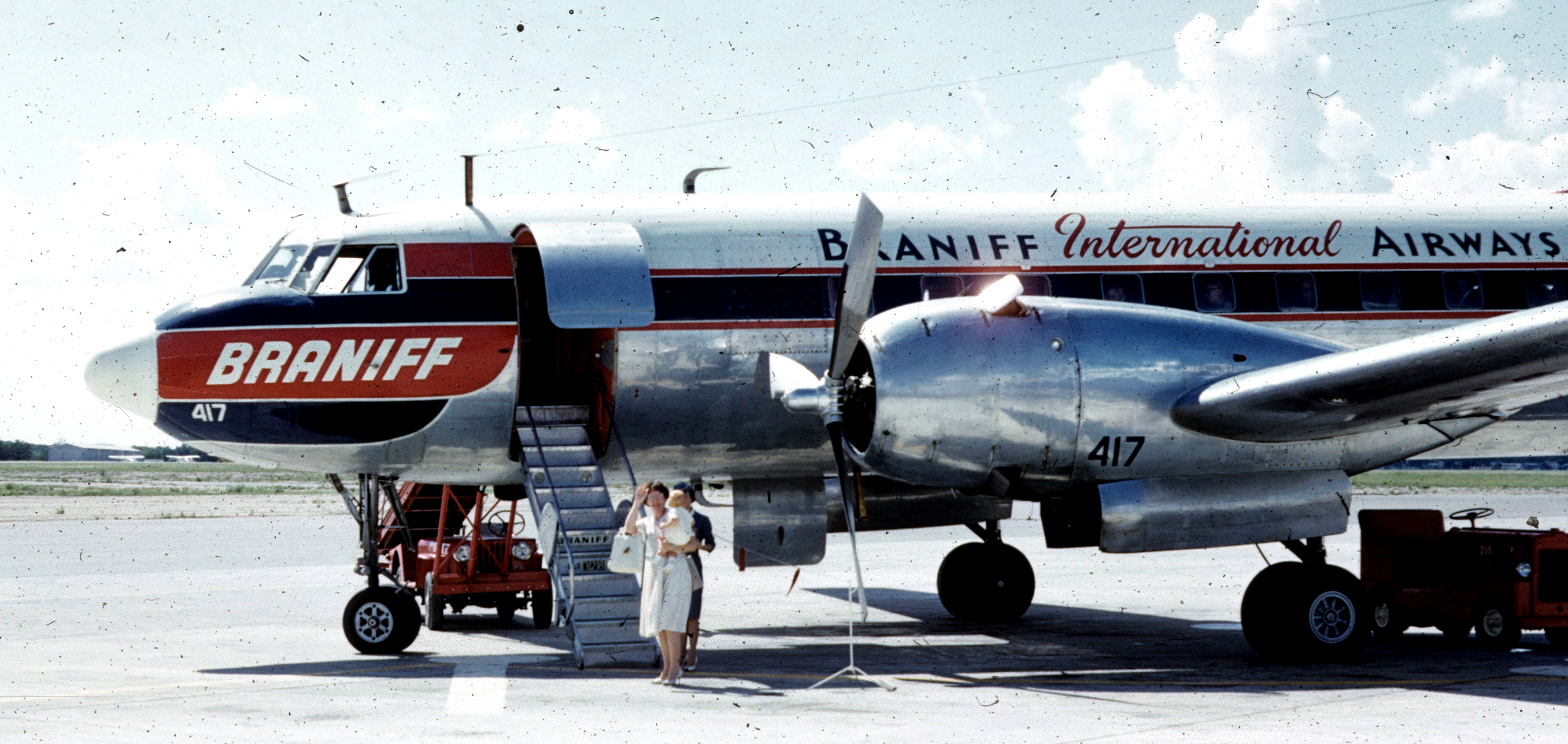 BI Airways Convair 340 in the spring of 1961 in Austin, Texas.